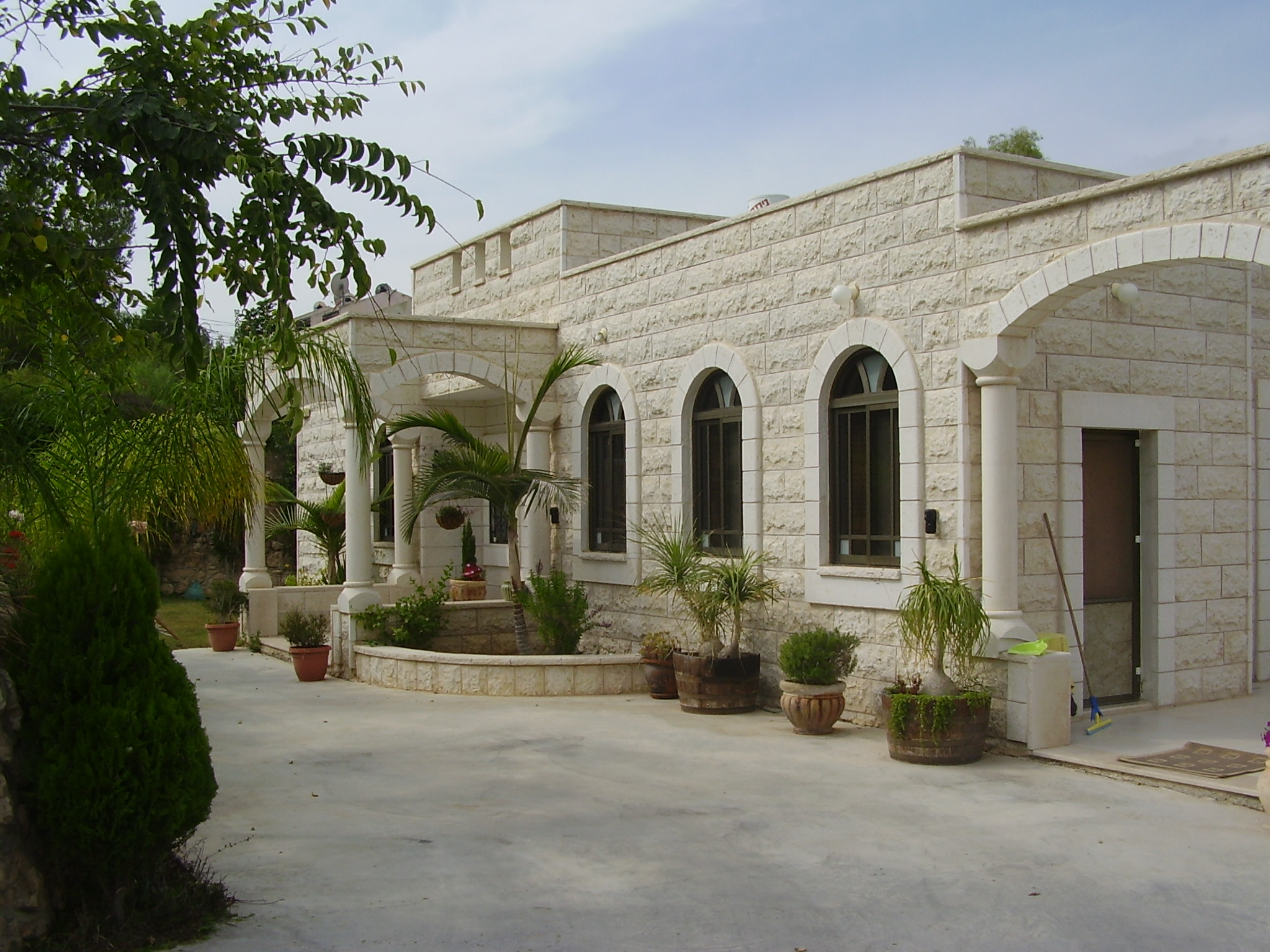 a house in neve shalom